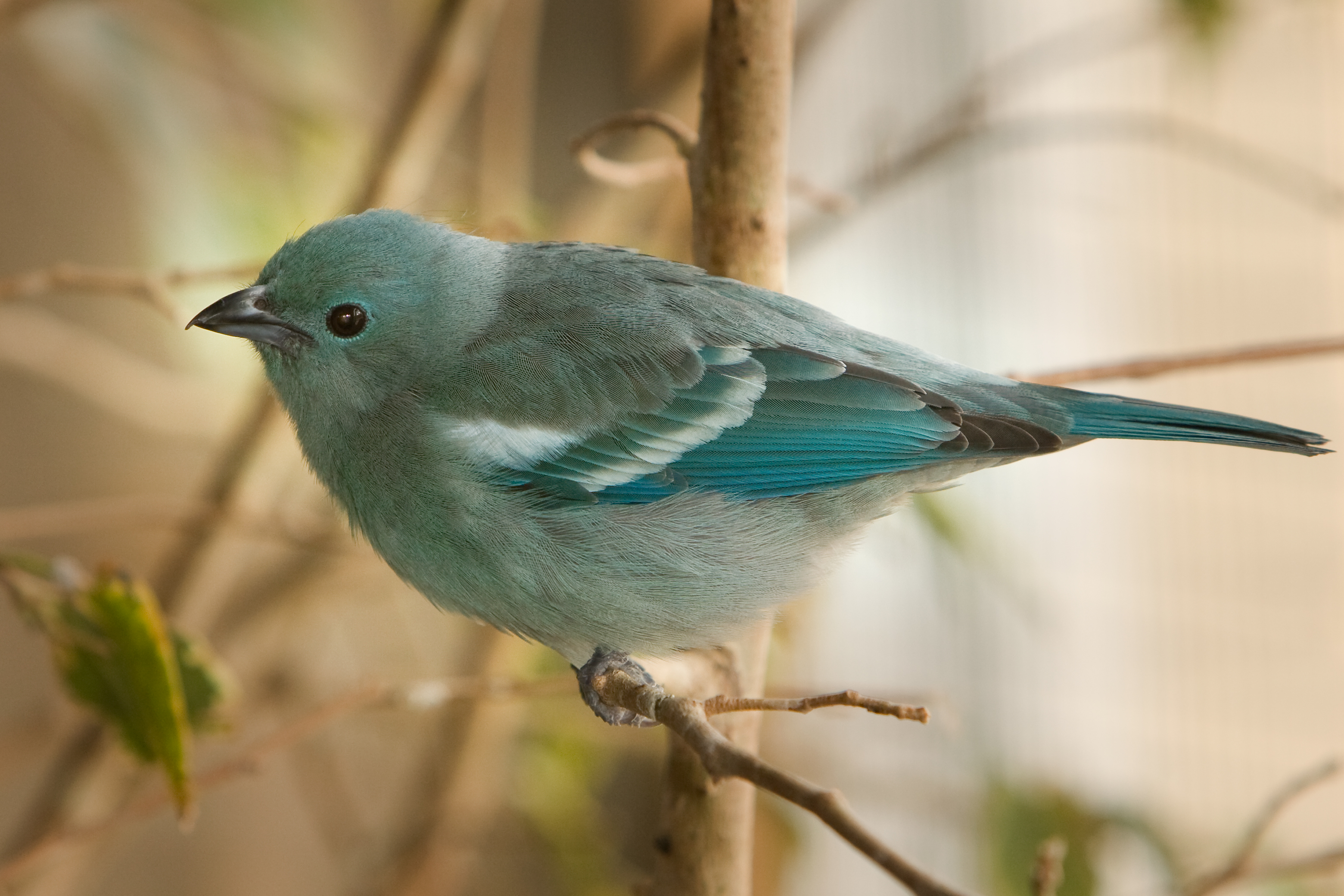 Blue-grey Tanager (thraupis episcopus). Image taken at the Bird Kingdom Aviary, Niagara Falls, Canada.